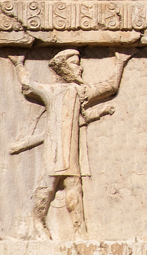 Xerxes I tomb Ionian soldier circa 470 BCE cleaned up